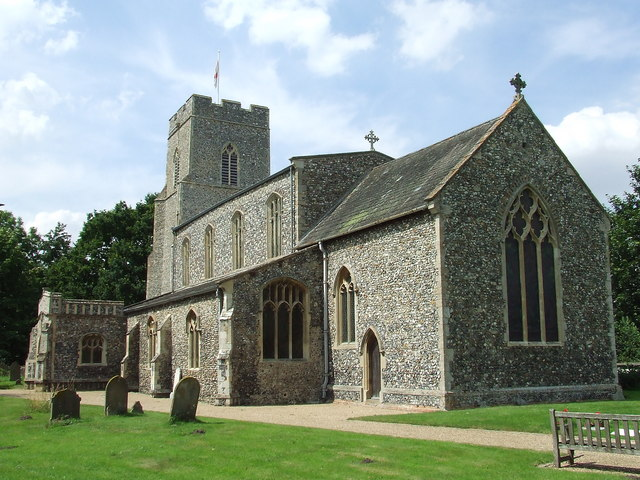 Church of All Saints in Mendham, Suffolk, England. A Grade I listed medieval church.